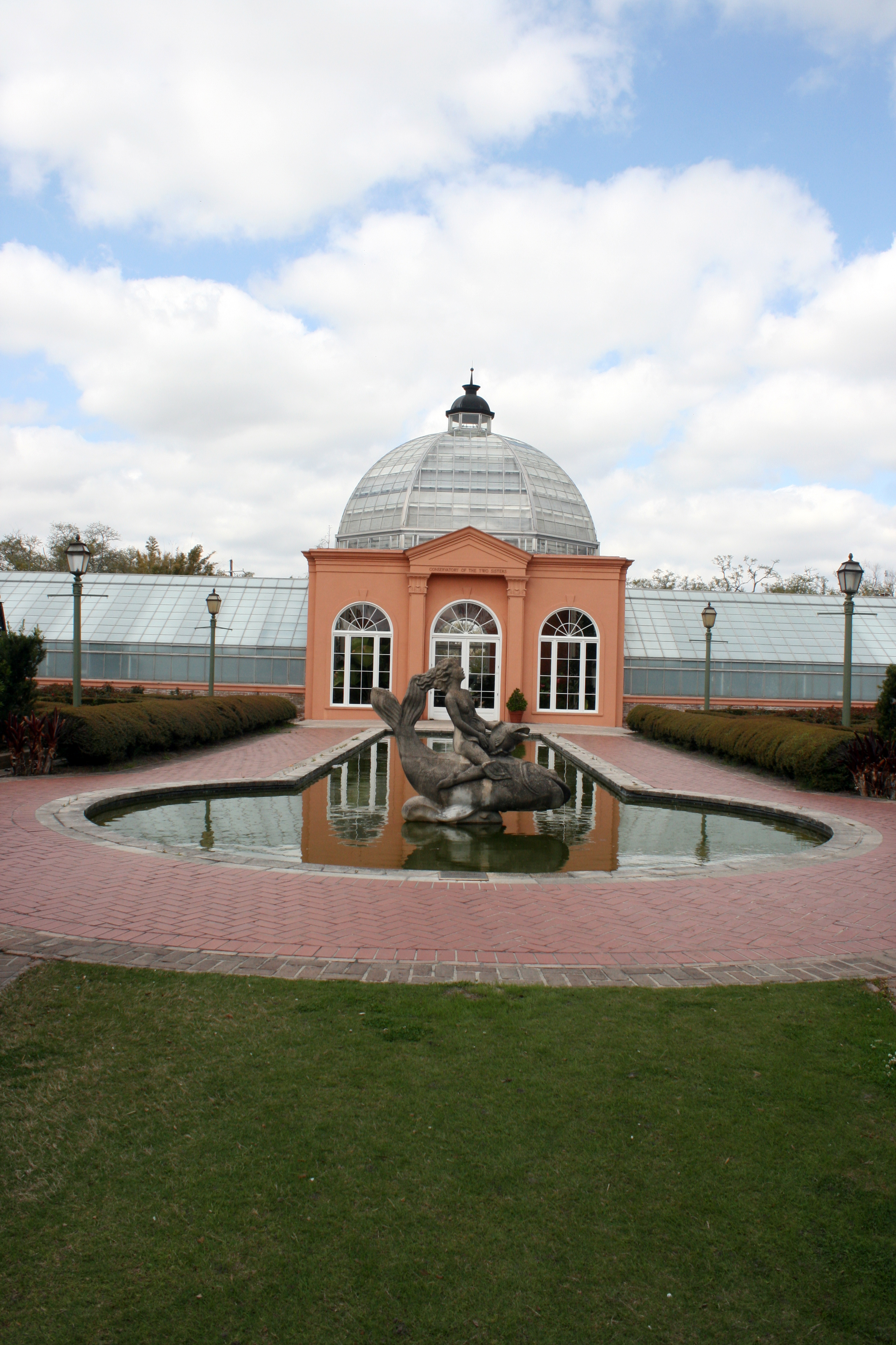 Conservatory, Botanical Gardens, City Park, New Orleans.